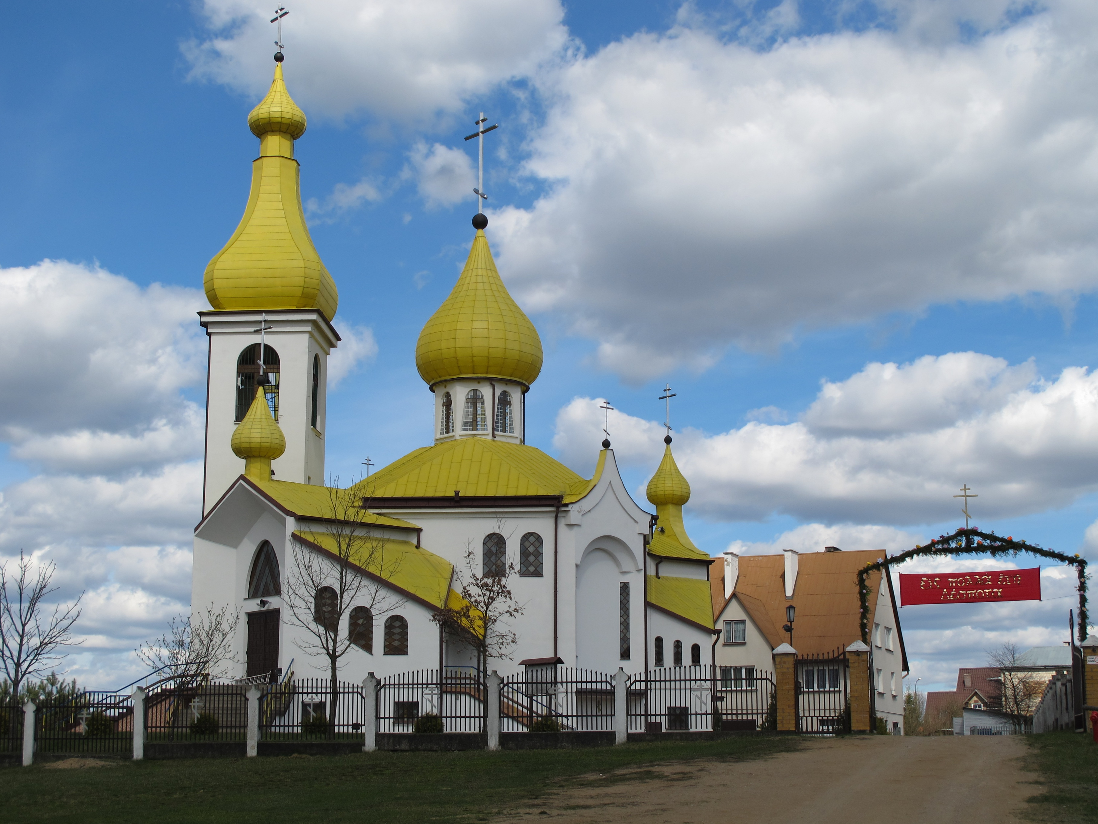 Orthodox Church of Holy Women Carrying Spices, Czarna Białostocka - Białostocka street, gm. Czarna Białostocka, podlaskie, Poland